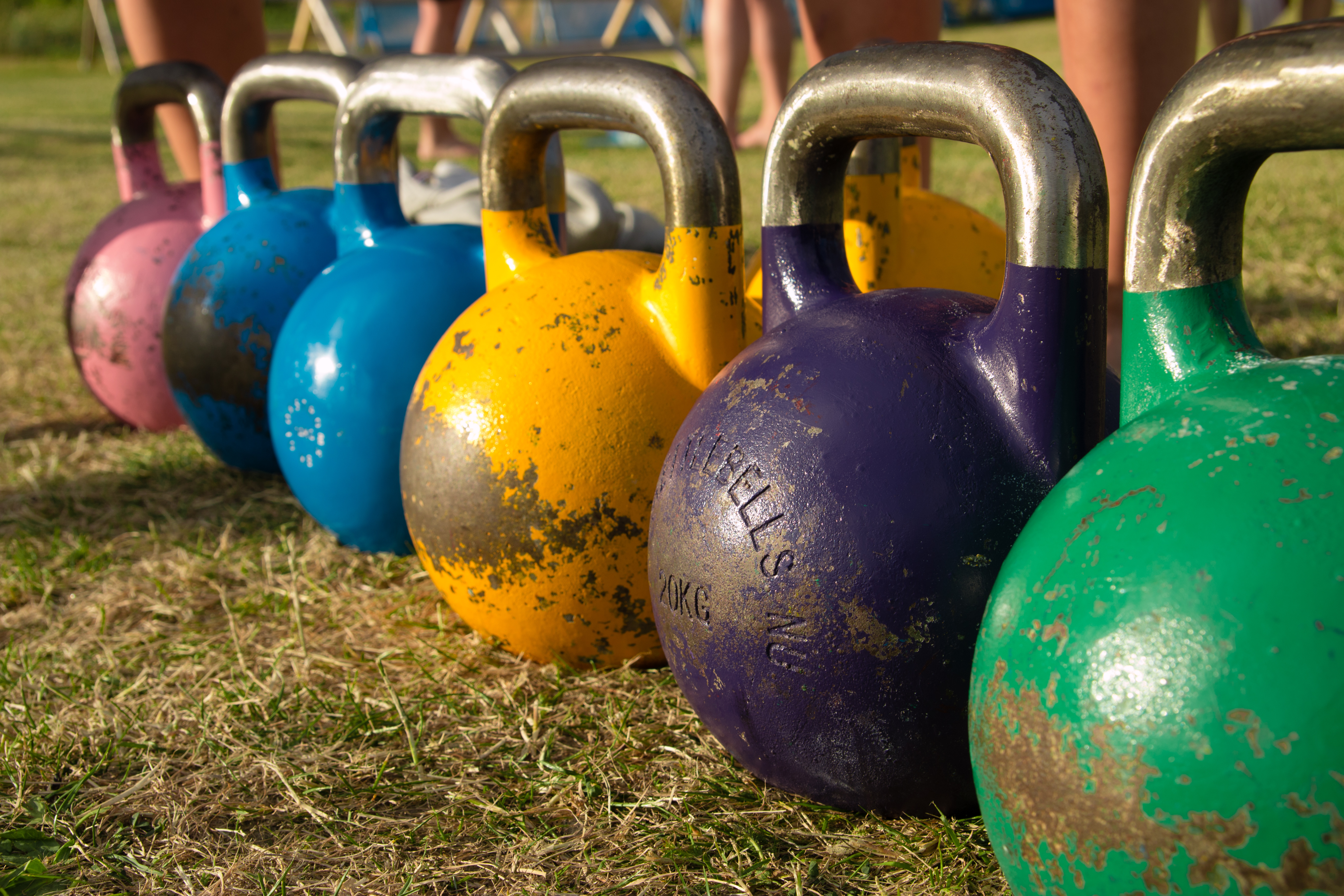 Competition kettlebells, ranging from 8 to 24 kilos. Competition kettlebells are color coded: 8kg - pink 12kg - blue (included in the picture: 14kg - also blue, but not official) 16kg - yellow 20kg - purple 24kg - green